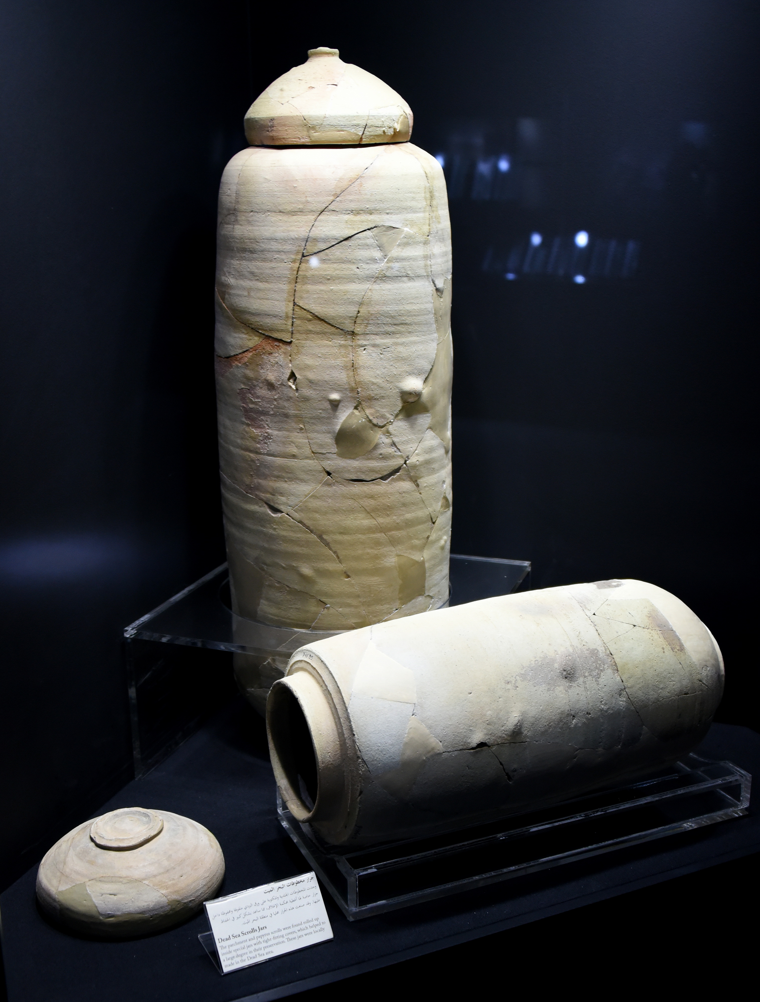 Many Dead Sea Scrolls were found rolled-up inside specific jars. The jars were made locally, in the Dead Sea area, and had tightly-fitting covers. From Qumran (Khirbet Qumran or Wadi Qumran), West Bank of the Jordan River, near the Dead Sea, modern-day State of Israel. The Jordan Museum, Amman, Jordan Hashimite